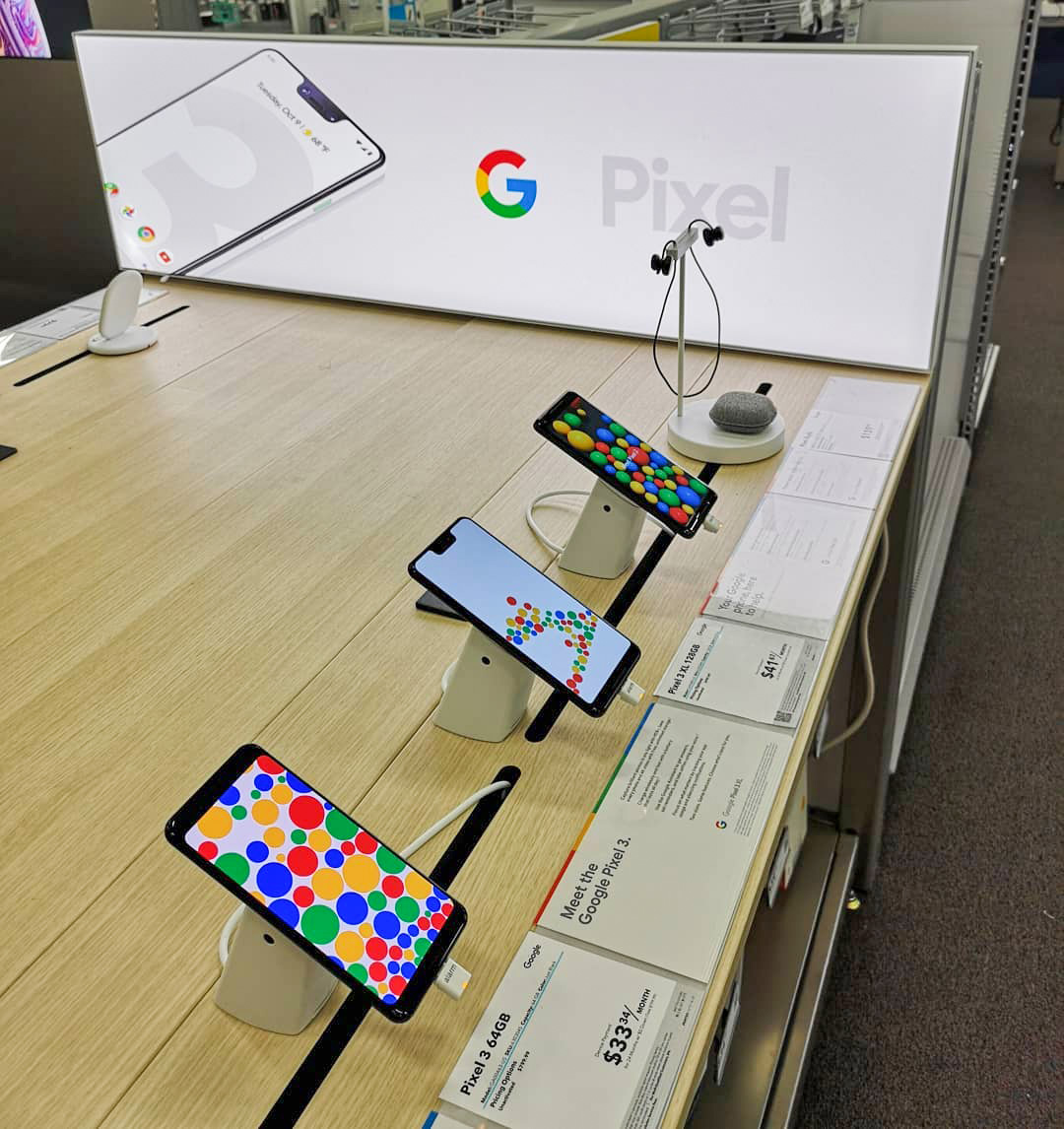 Photographs of Google Pixel 3 and Pixel 3 XL smartphones.